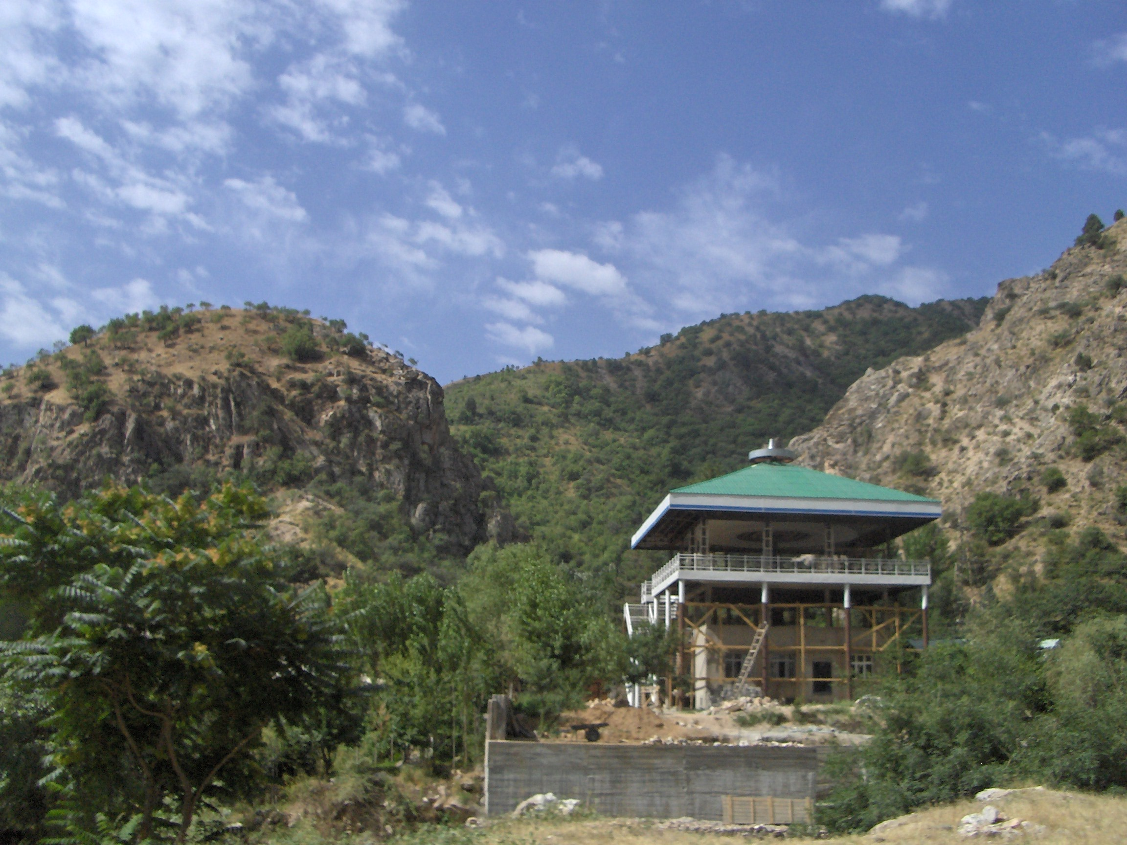 Gorge in Varzob district - Tajikistan, Landscape